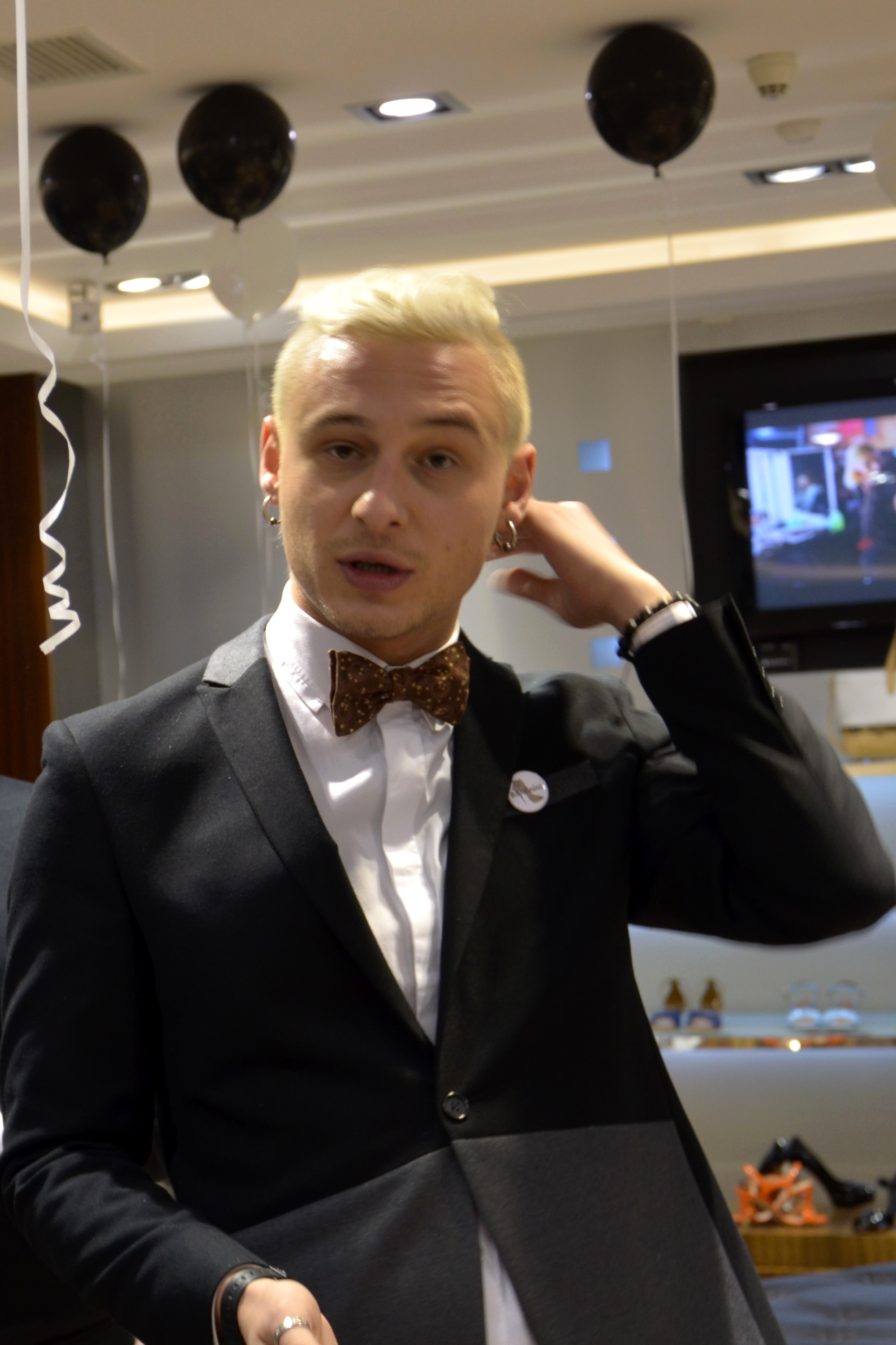 Anniversary of boutique of Baldinini in Minsk 2014 May 15. Event on the occasion of arrival to Minsk Gimmy Baldinini.